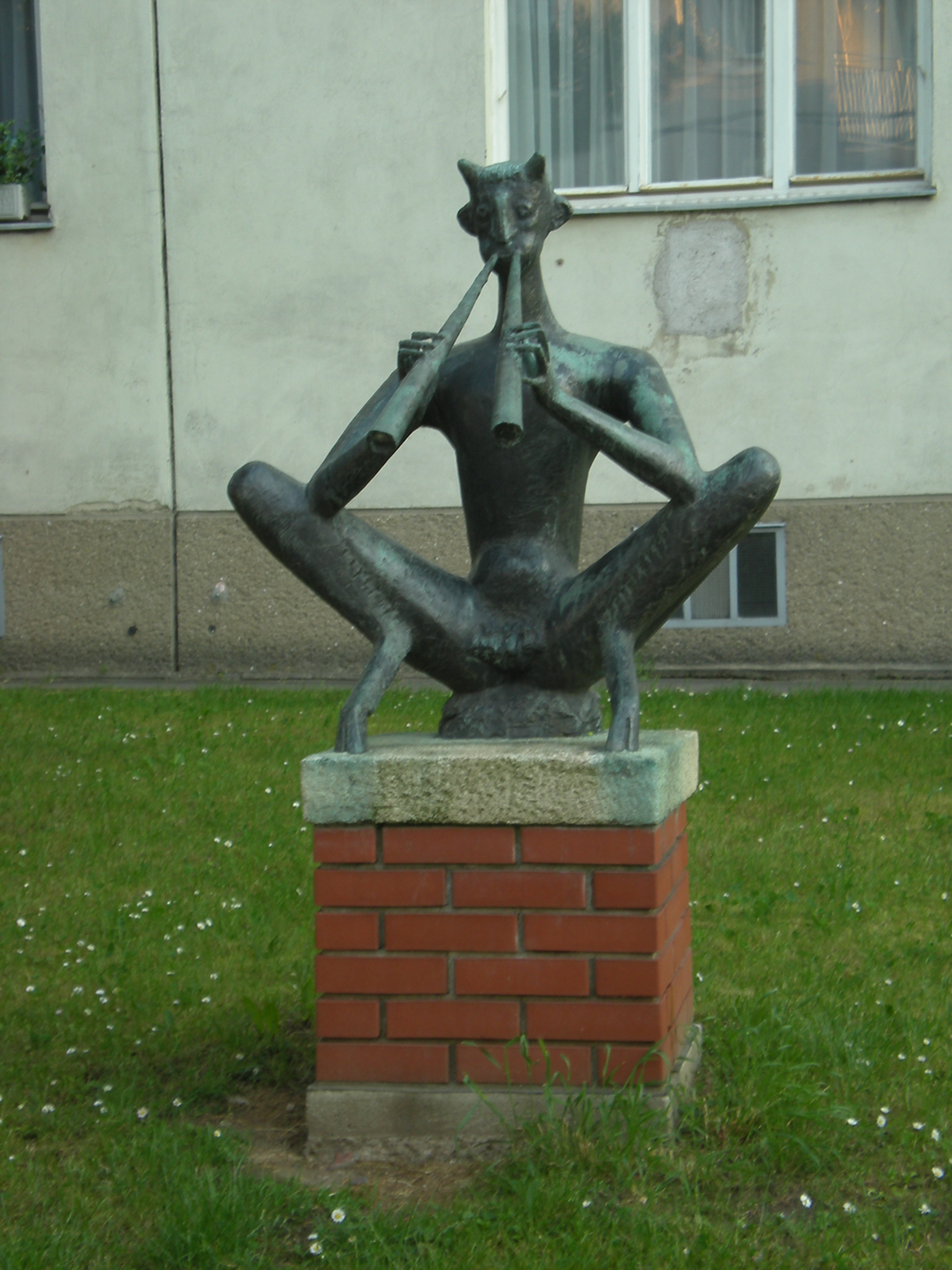 one of two statues at Meißauergasse in Vienna This media shows the Vienna residential building (Gemeindebau) with the ID 1559.